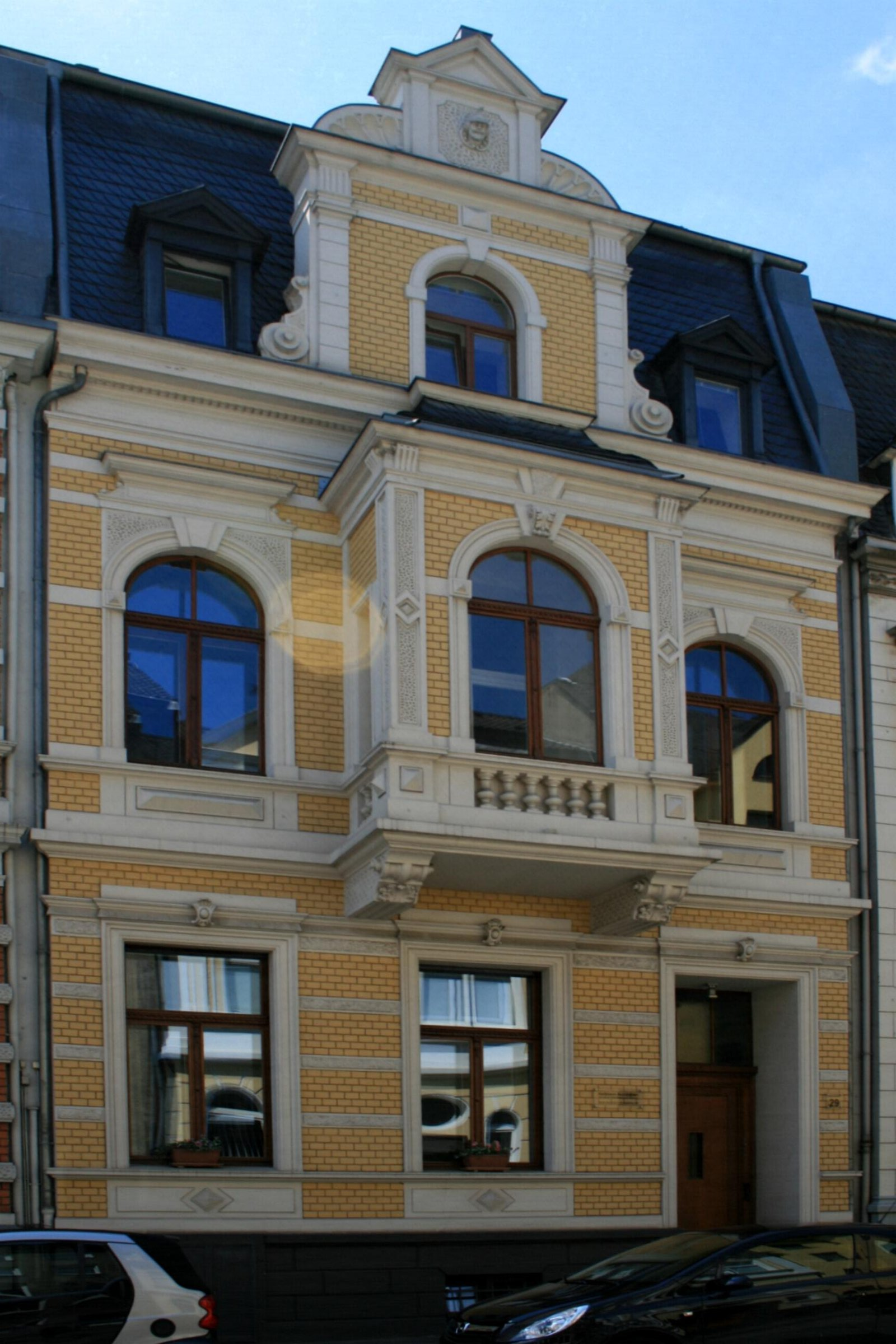 Cultural heritage monument No. B 163 in Mönchengladbach